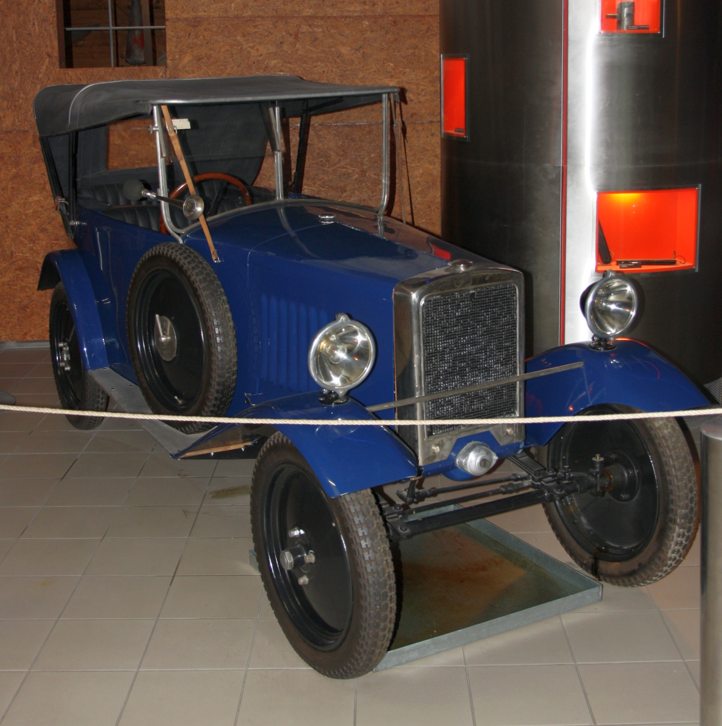 Zbrojovka Disk from 1925 in Technical museum Brno.